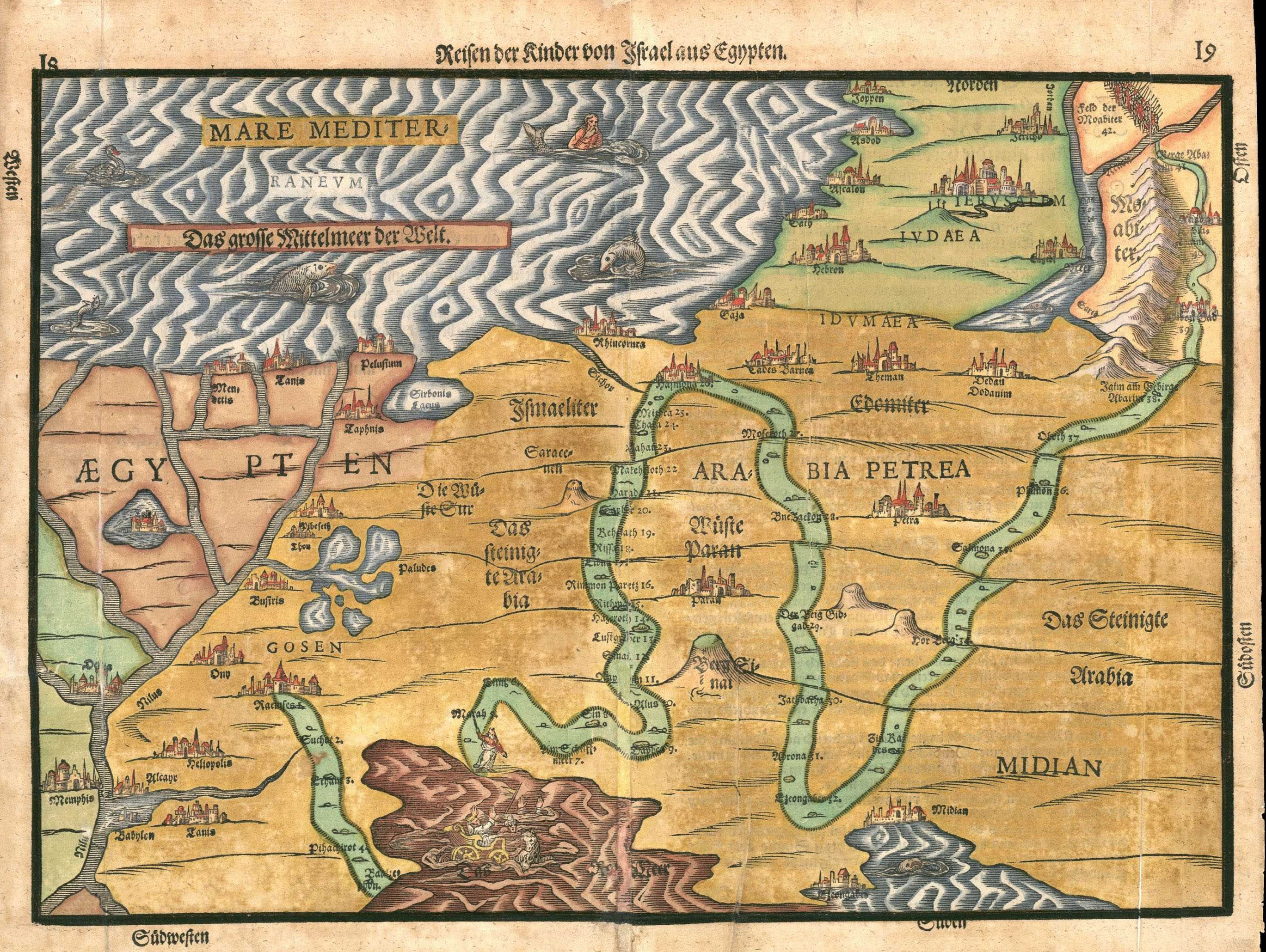 A map of Exodus